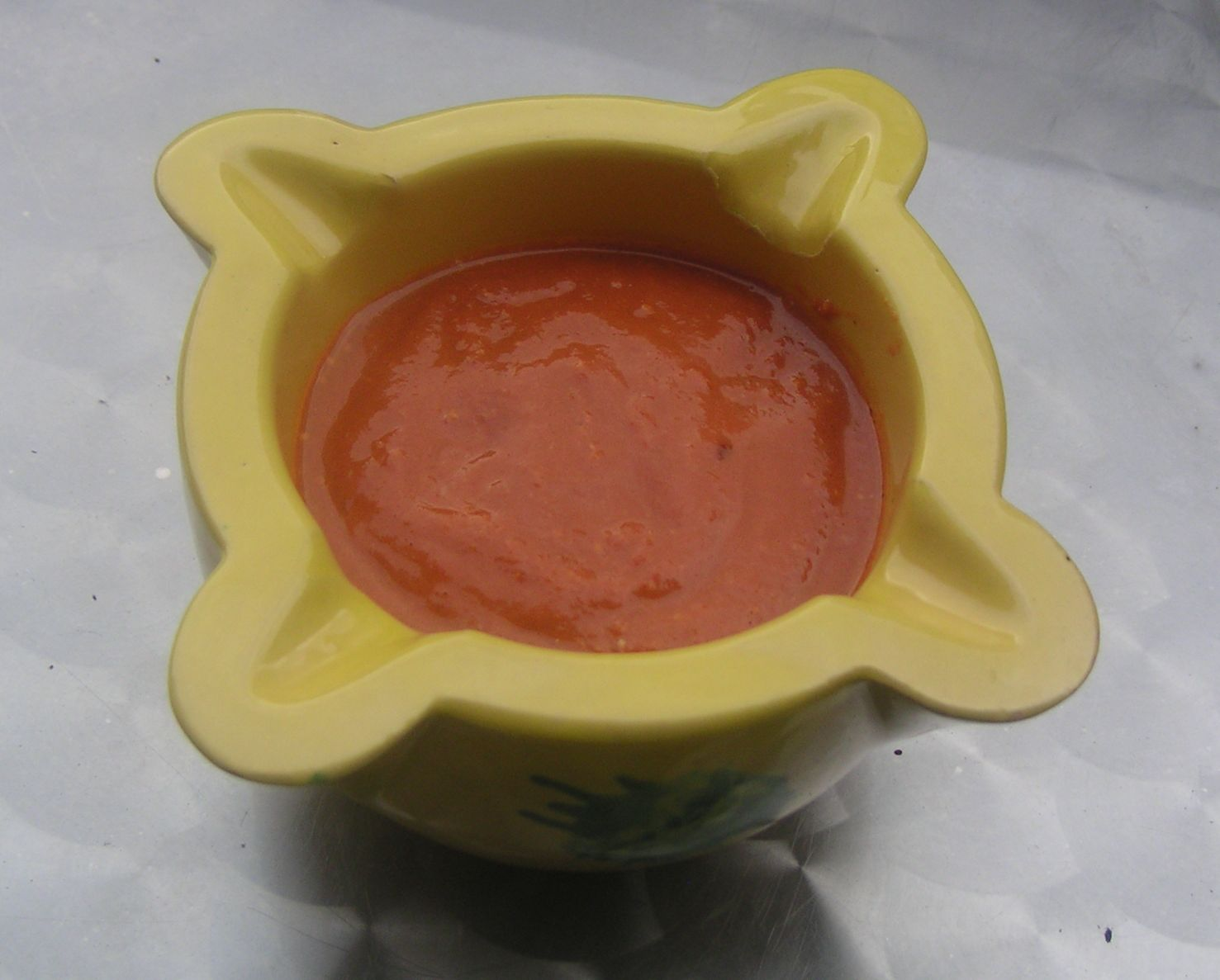 Romesco sauce is a typical Catalan sauce made with tomato, an spécial pepper called "nyora", garlic and almonds.